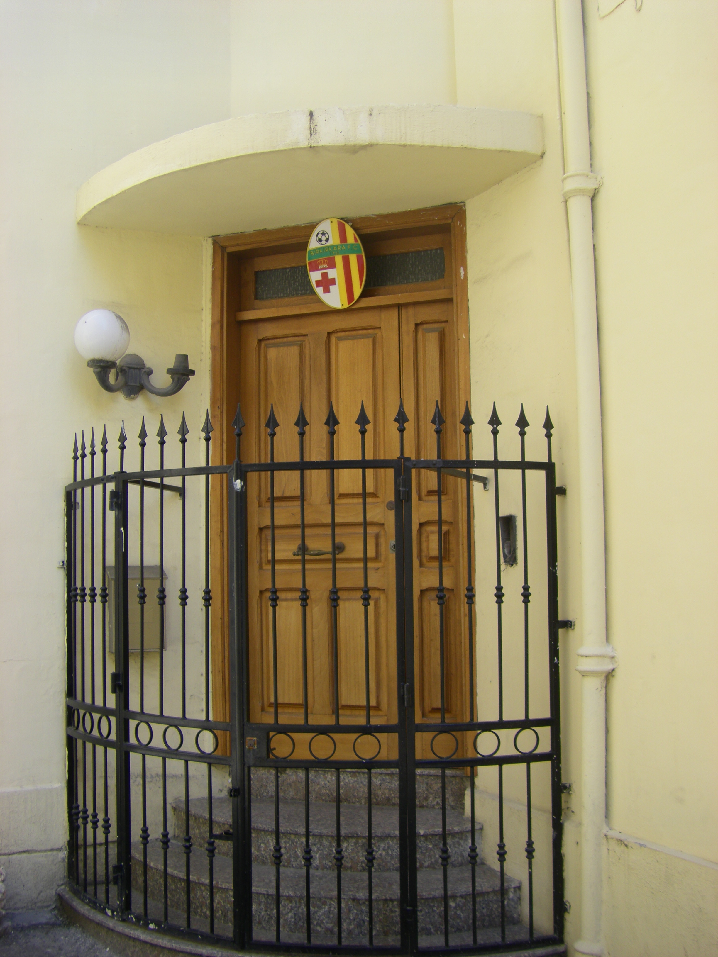 Entrance to the office of Birkirkara FC which is just left around the corner from McDonalds